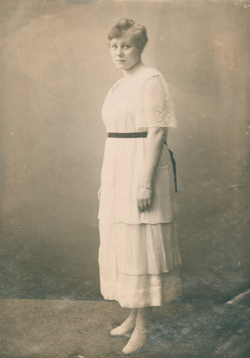 Nanna (Charlotta) Svatz was the first Swedish professor at a public university and a doctor.